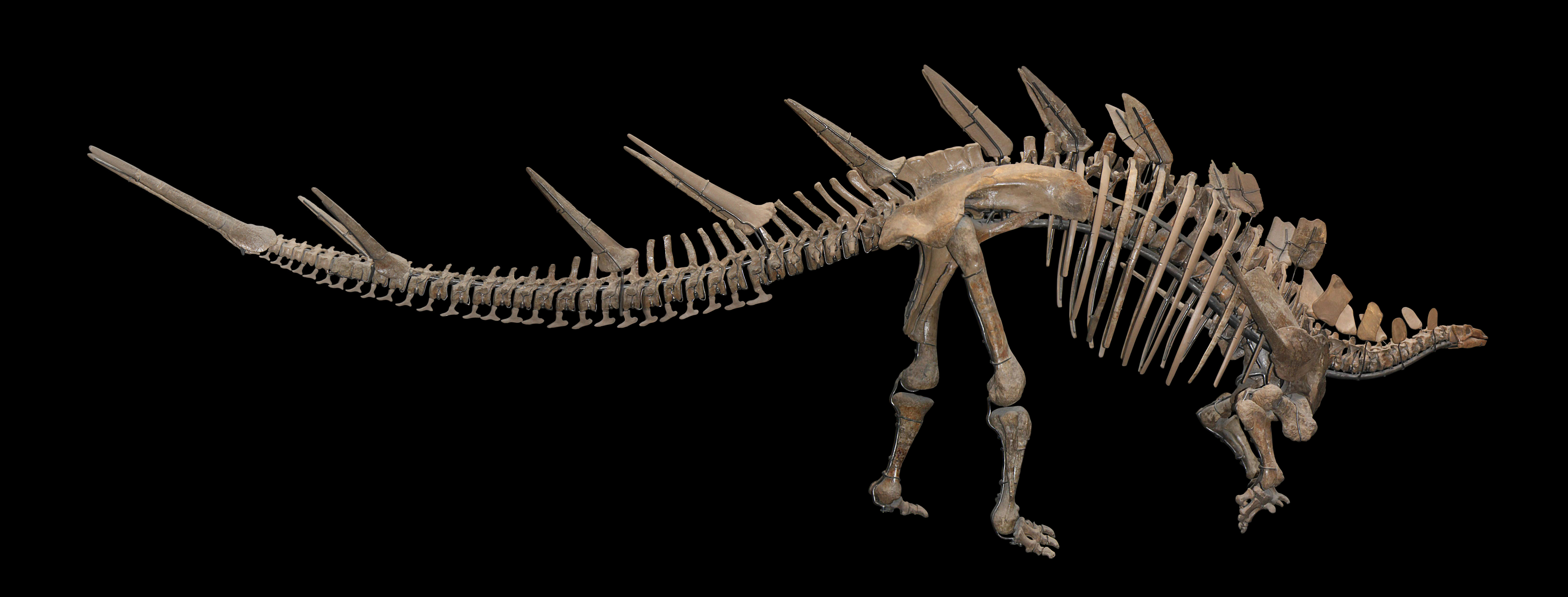 Lectotype, partial individual from excavation 'St' at Kindope, Tendaguru, Tanzania; Length 4,5 m; Museum für Naturkunde Berlin.